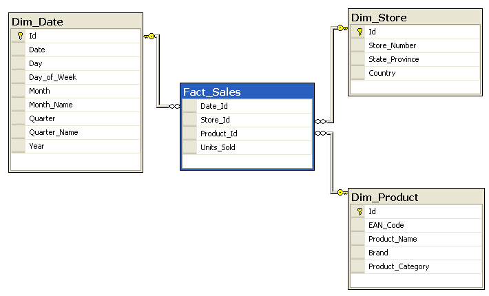 Example of a database star schema. A central fact table links records in dimension tables using unique identifiers to key related records.